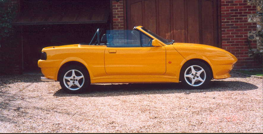 Quantum 2+2 convertible